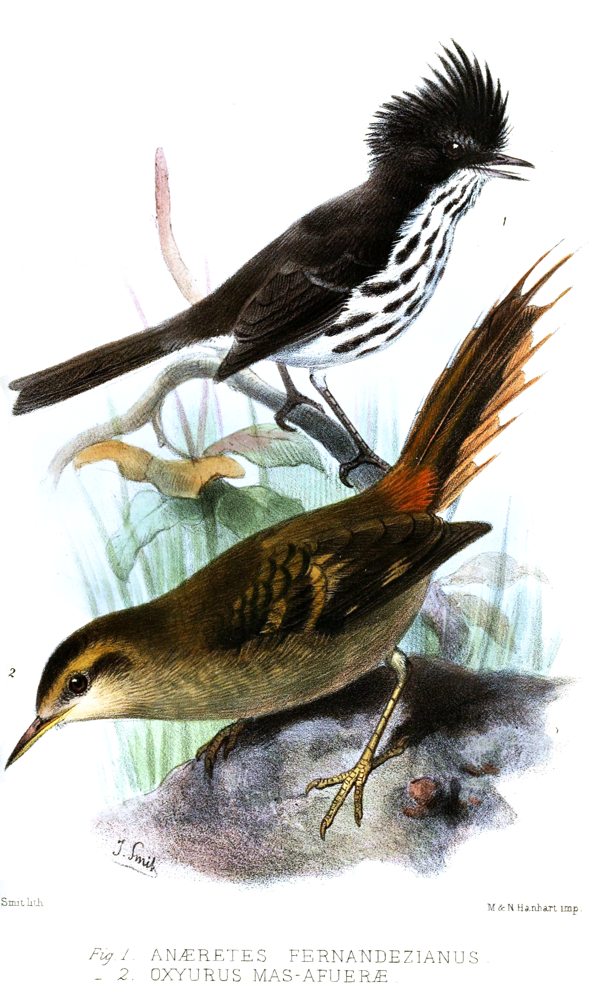 An illustration of the Juan Fernández Tit-Tyrant, Anaeretes fernandezianus (=Anairetes fernandezianus), and the Masafuera Rayadito, Oxyurus masafuerae (=Aphrastura masafuerae), by Joseph Smit